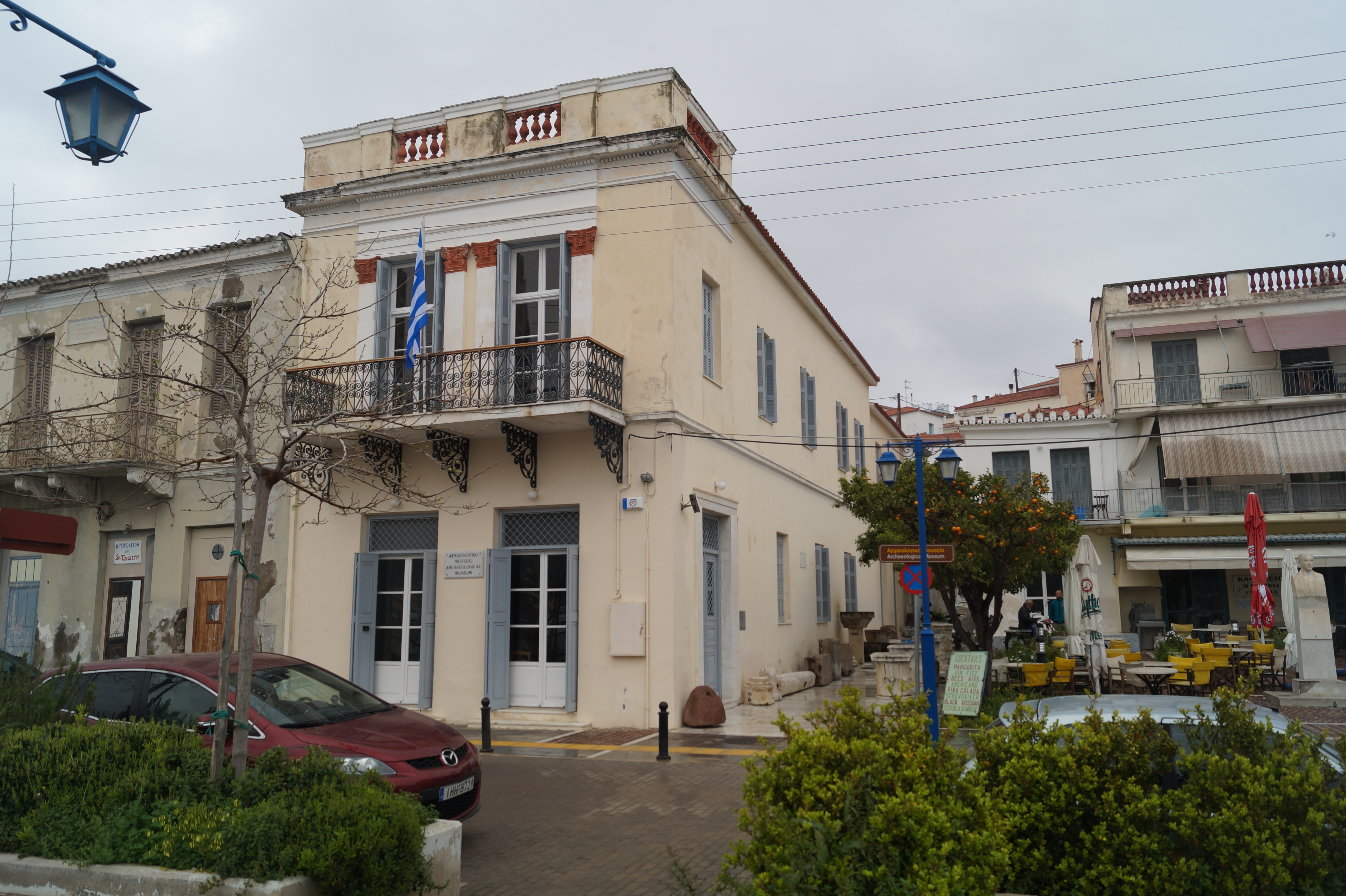 Archaeological Museum of Poros, Greece.